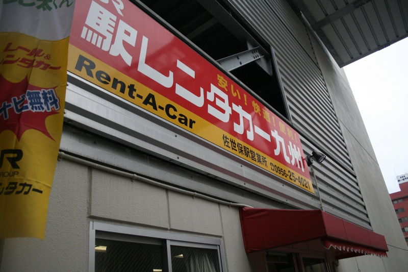 Car rental service run by the Kyushu Railway Company, at Sasebo Sta.